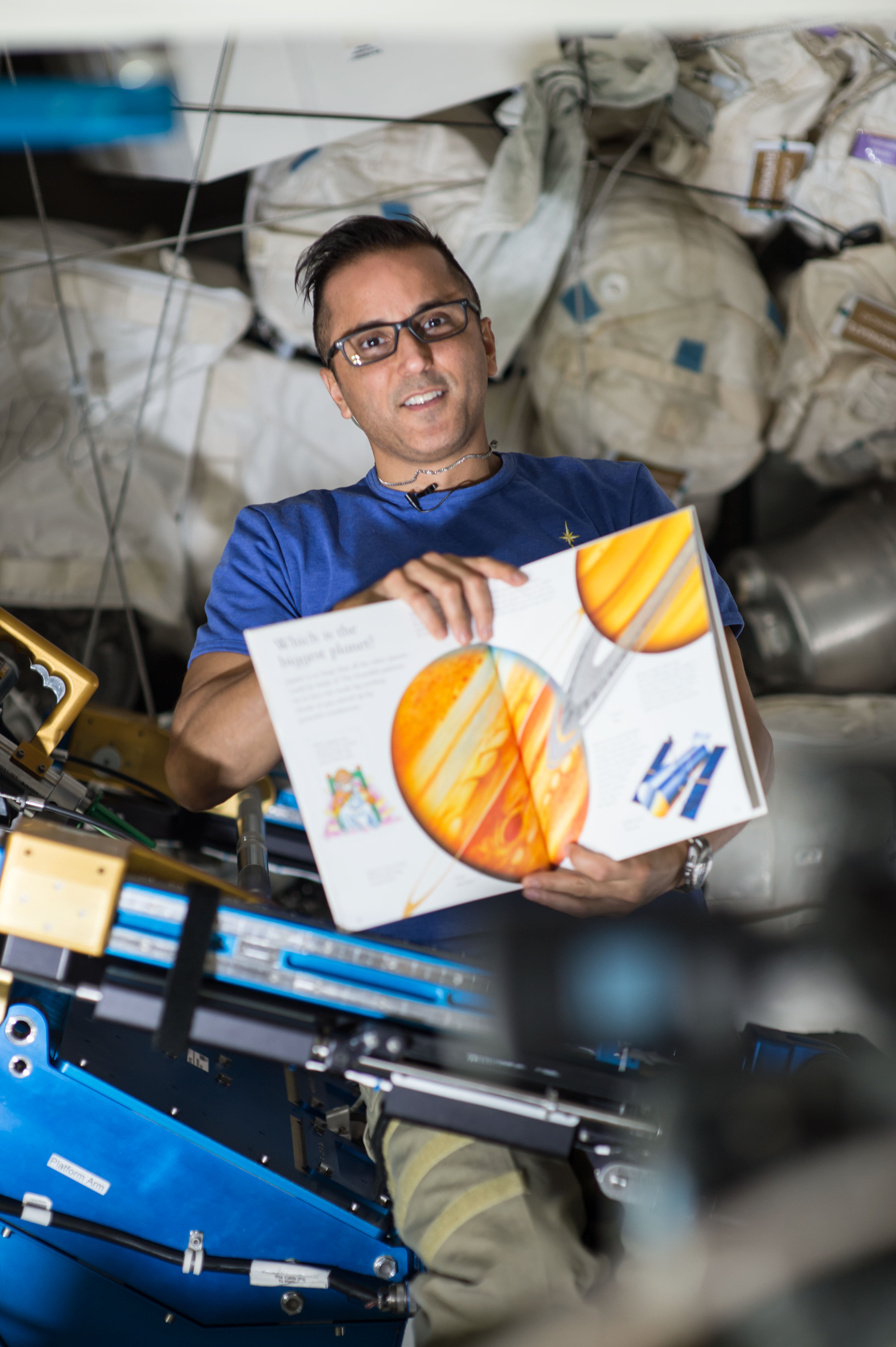 Flight Engineer Joe Acaba holds a children's book that he is reading from as part of the Story Time From Space program. Astronauts read aloud from a STEM-related children's book while being videotaped and demonstrate simple science concepts and experiments aboard the International Space Station.